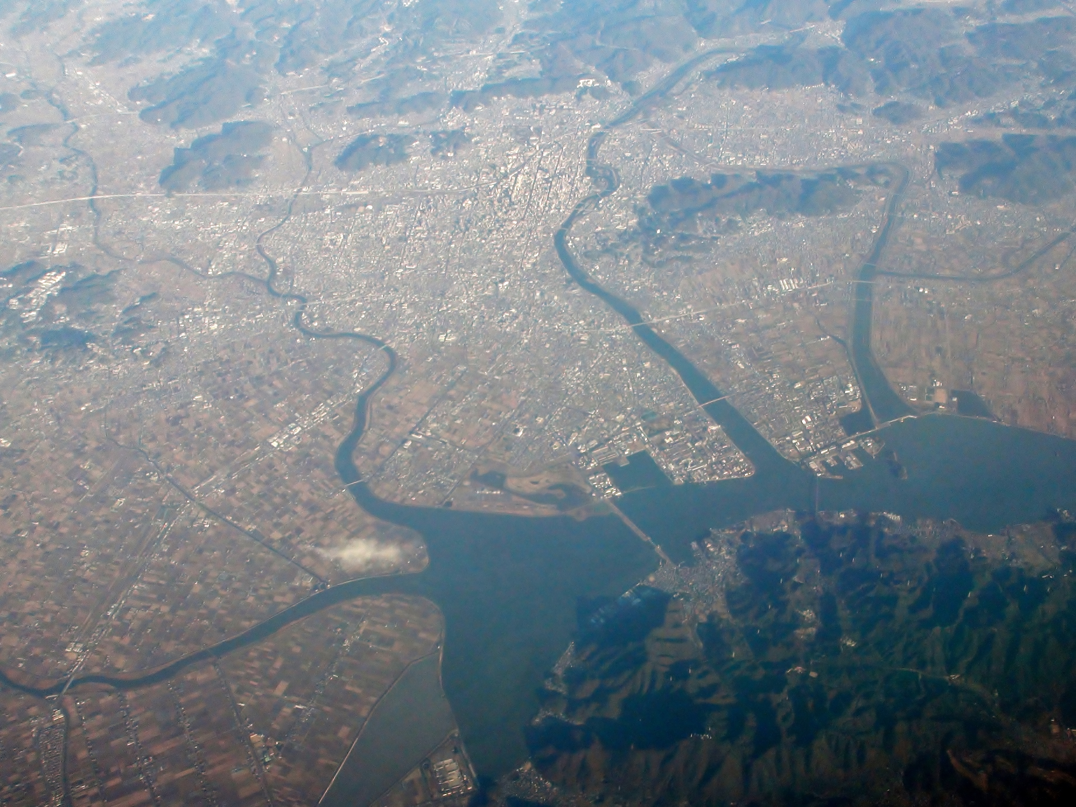 Taken from aircraft Okayama City Southern District. Dec. 2014.